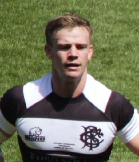 Peel playing for the Barbarians against England